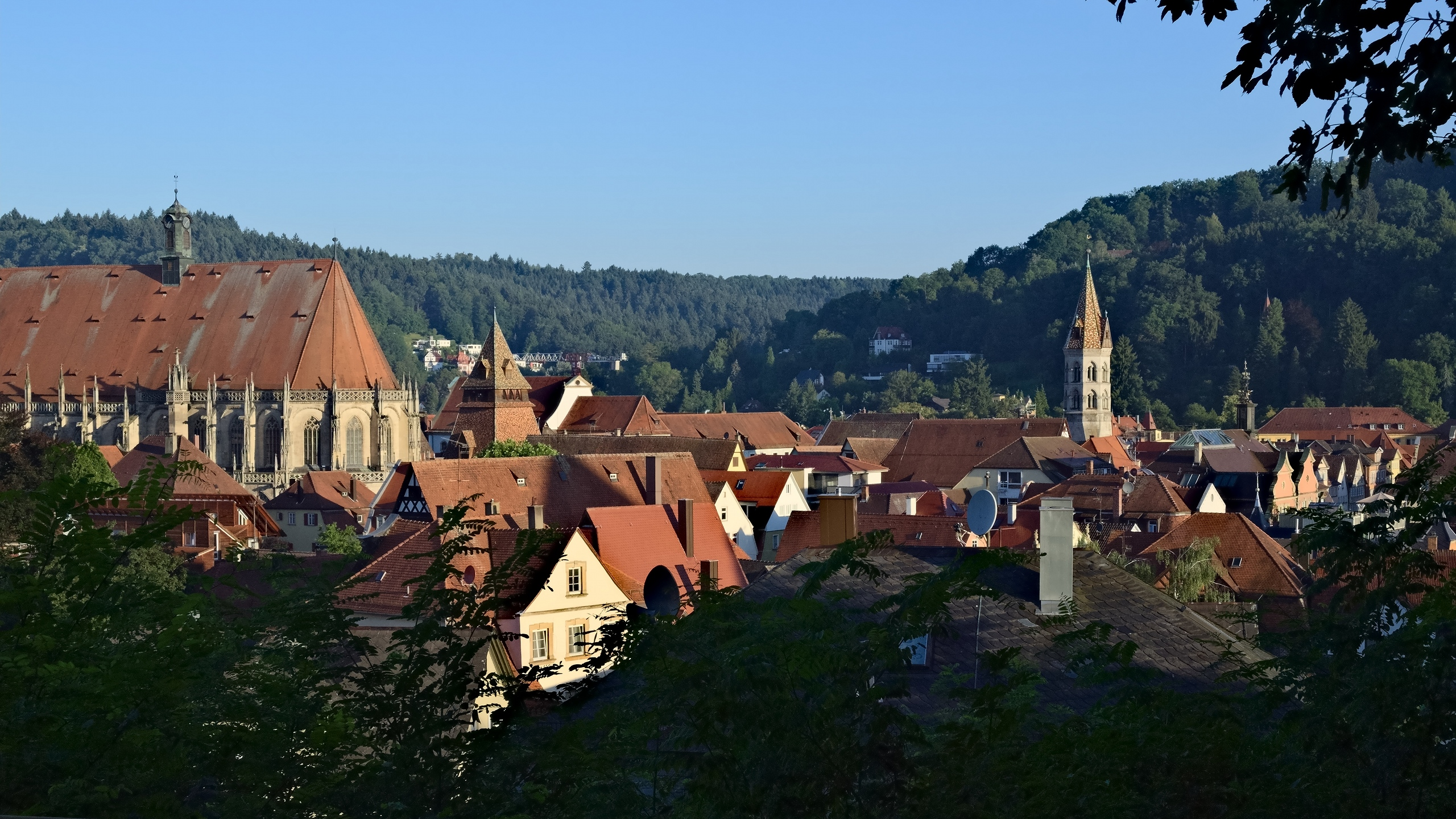 View towards Schwäbisch gmünd city from Zeiselberg viewpoint at sunrise